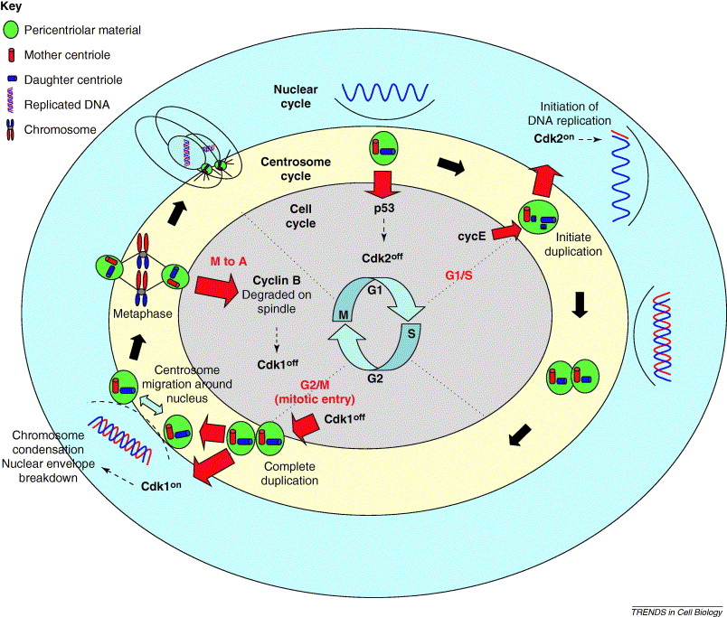 Figure 1: Role of the centrosome in cell cycle progression. Doxsey, S., W. Zimmerman and K. Mikule (2005) TRENDS in Cell Biology 15 6: 303-310.